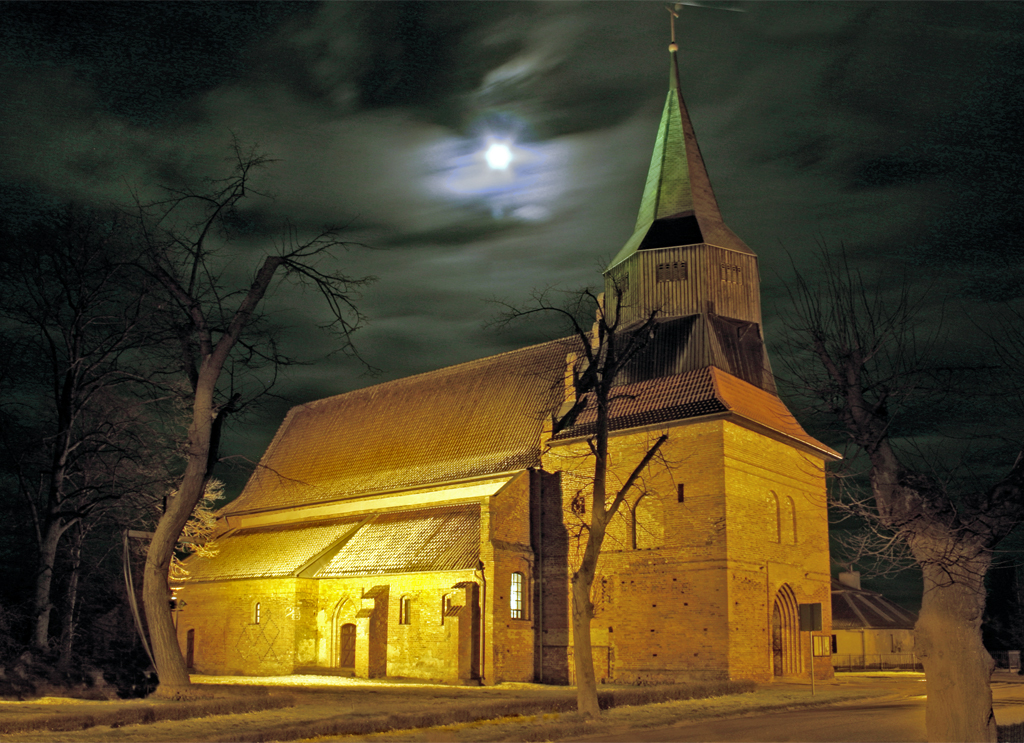 Church in Cedry Wielkie